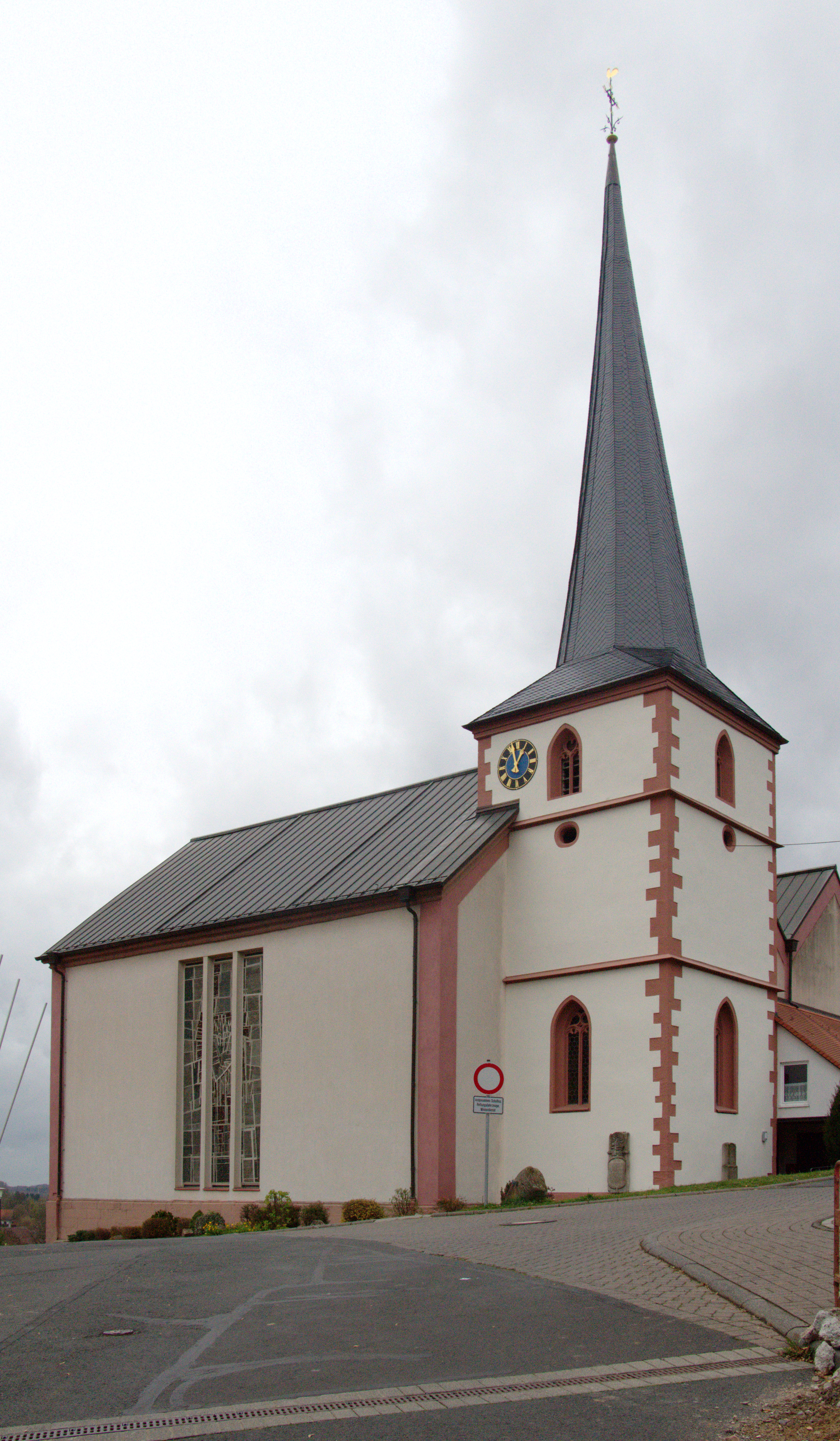 Catholic Church (St. Bartholomäus) in Motten, Motten, Germany